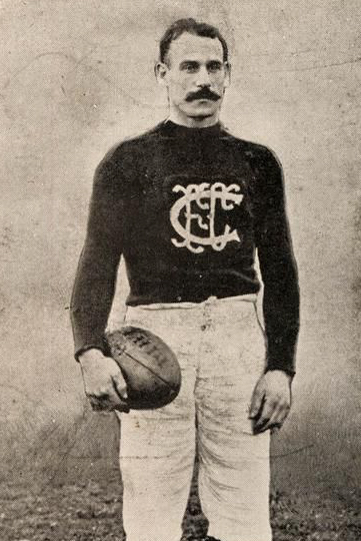 Photograph of Tom Clancy from the 1910 Weekly Times Victorian Footballer Postcard Series